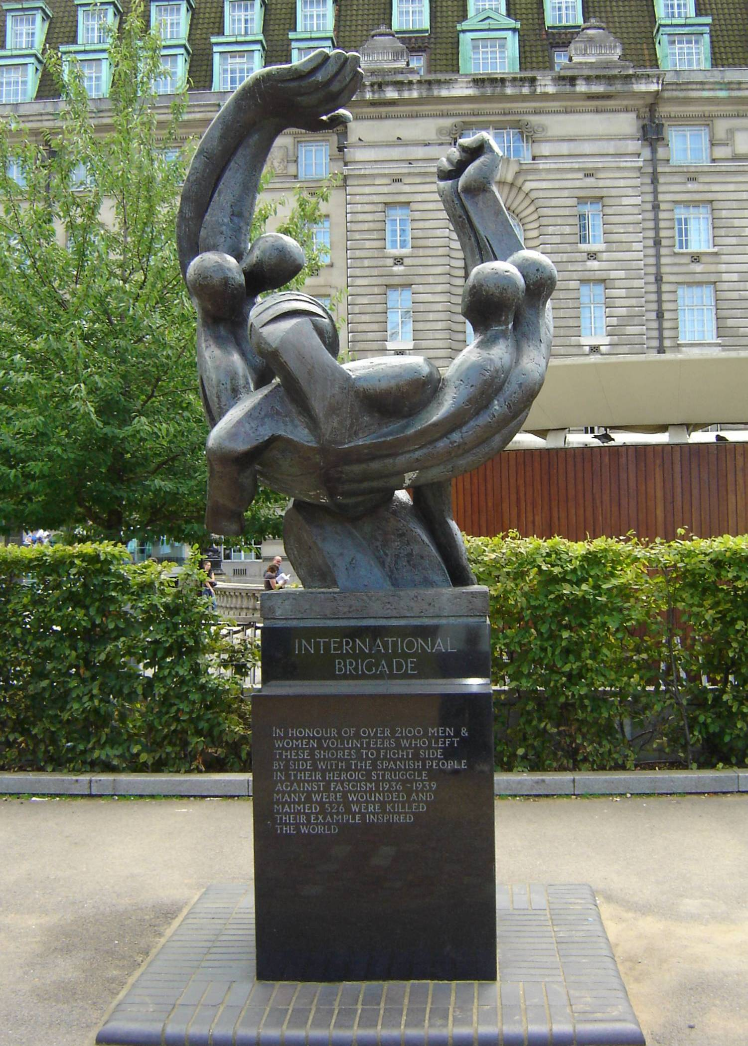 International Brigades memorial London with former LCC building in background.